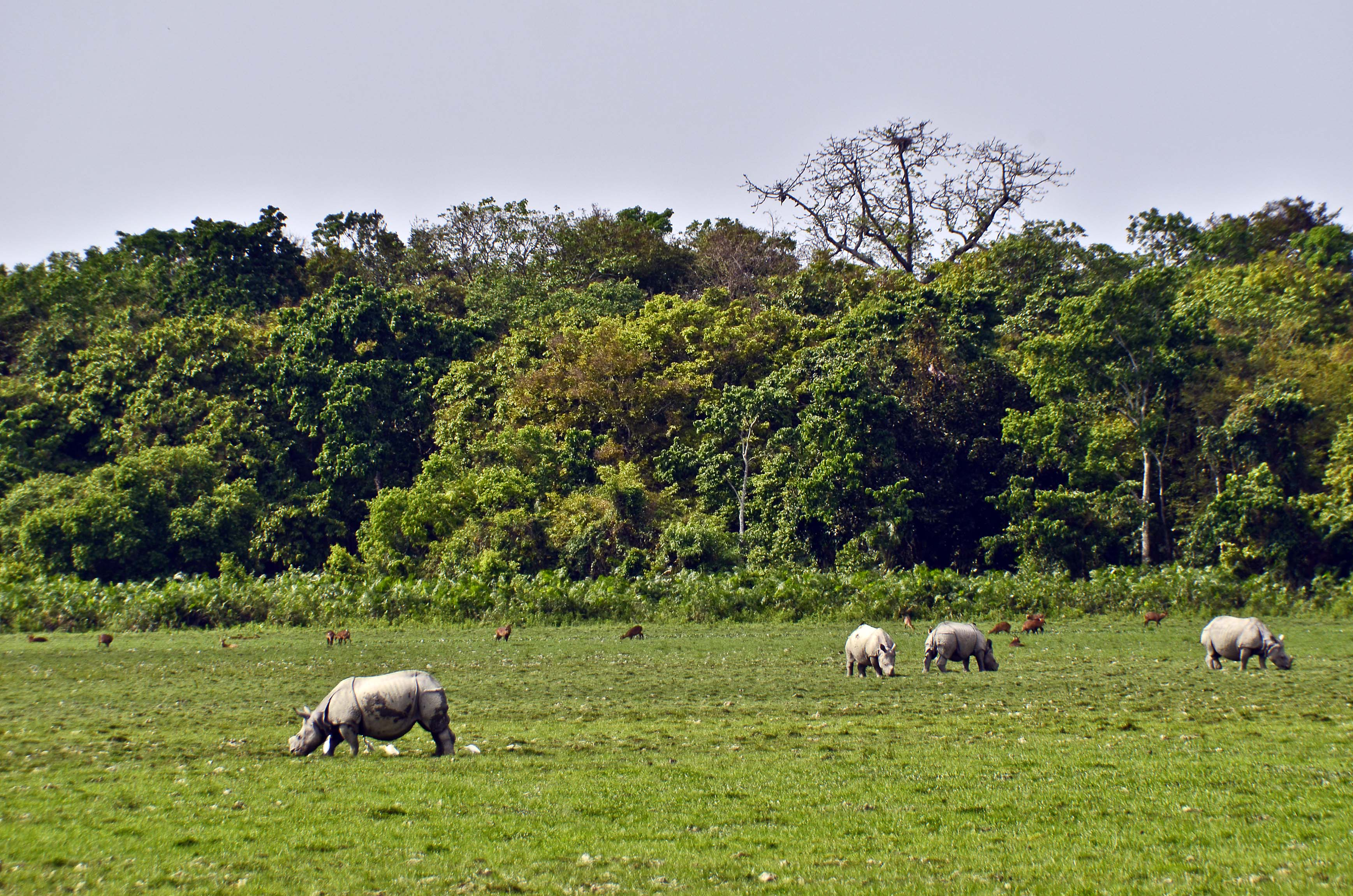 One horned Indian rhonos gazing at swamp area near Bagori range under Kaziranga National Park in Nagaon district of Assam, India.For years, rhinos have been widely slaughtered for their horn, a prized ingredient in traditional Asian medicines. Destruction of their habitat over the years, has brought the rhinos to the brink of extinction. These animals are among the worlds' most endangered species.